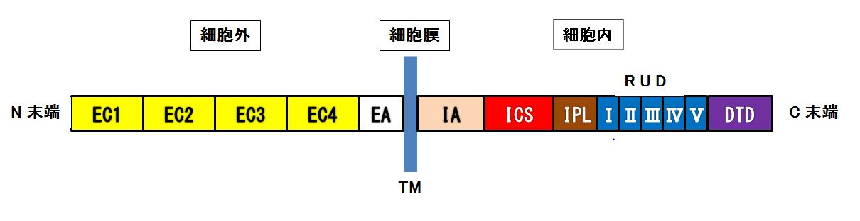 DTD, desmoglein terminal domain; EA, extracellular anchor domain; EC, extracellular cadherin domain; ICS, intracellular cadherin sequence; IPL, intracellular proline rich linker; RUD, repeating unit domain; TM, transmembrane domain.